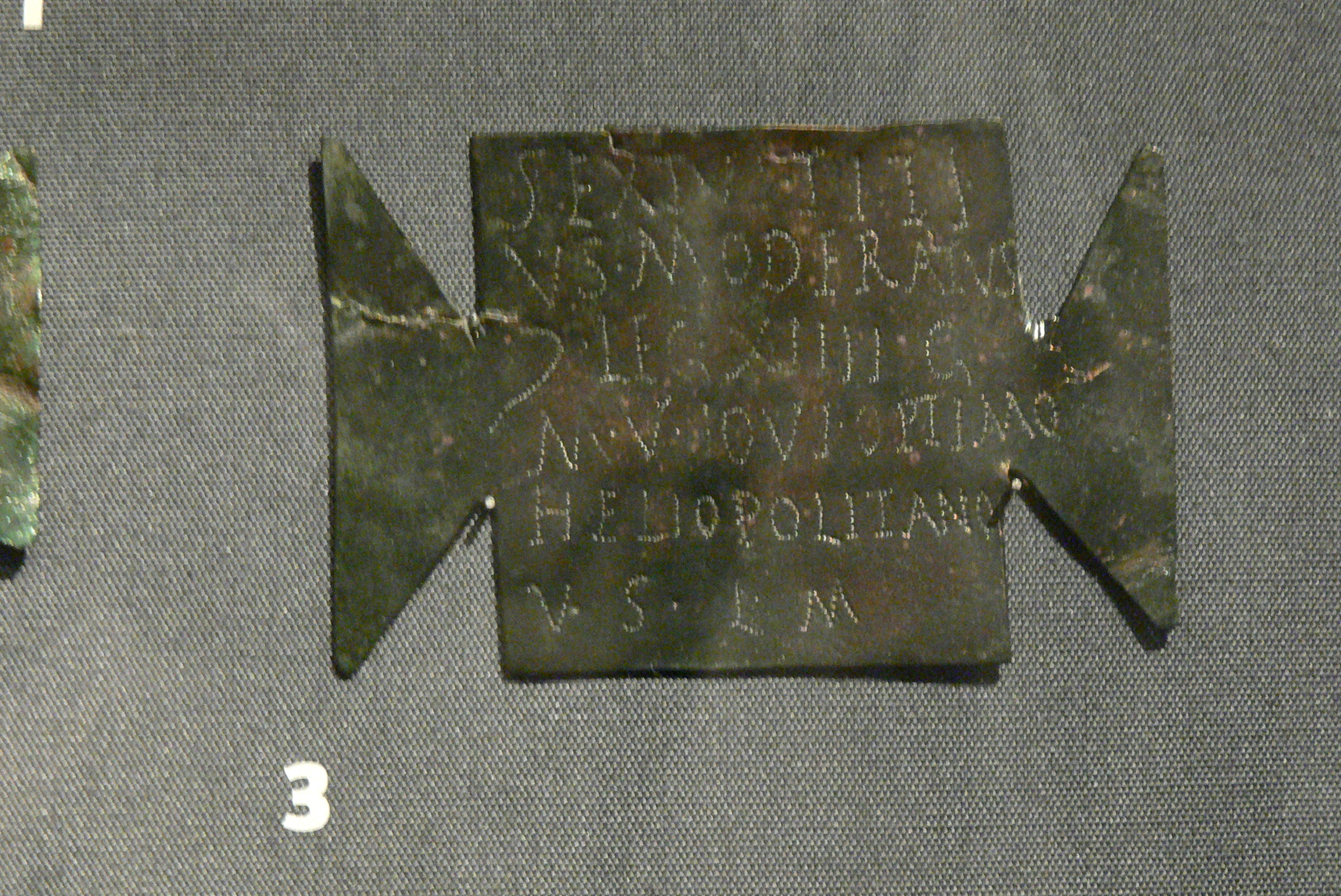 Museum Carnuntinum ( Lower Austria ). Votive tablet ( tabula ansata ) for Iupiter Heliopolitanus, dedicated by Sextius Titus Moderatus, centurio of legio XIV gemina.